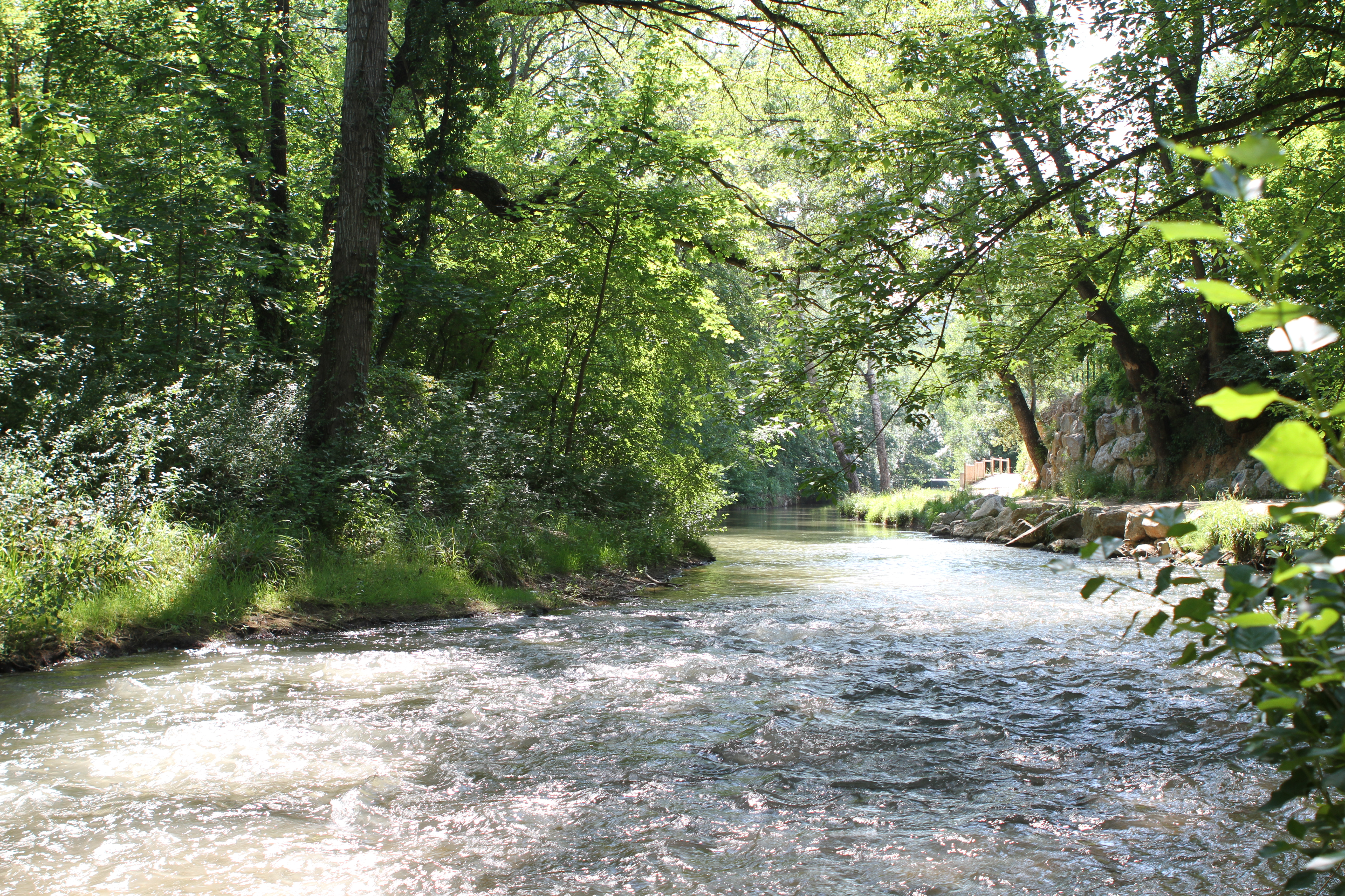 The Arc and its surroundings, near Aix-en-Provence (Bouches-du-Rhône, France)